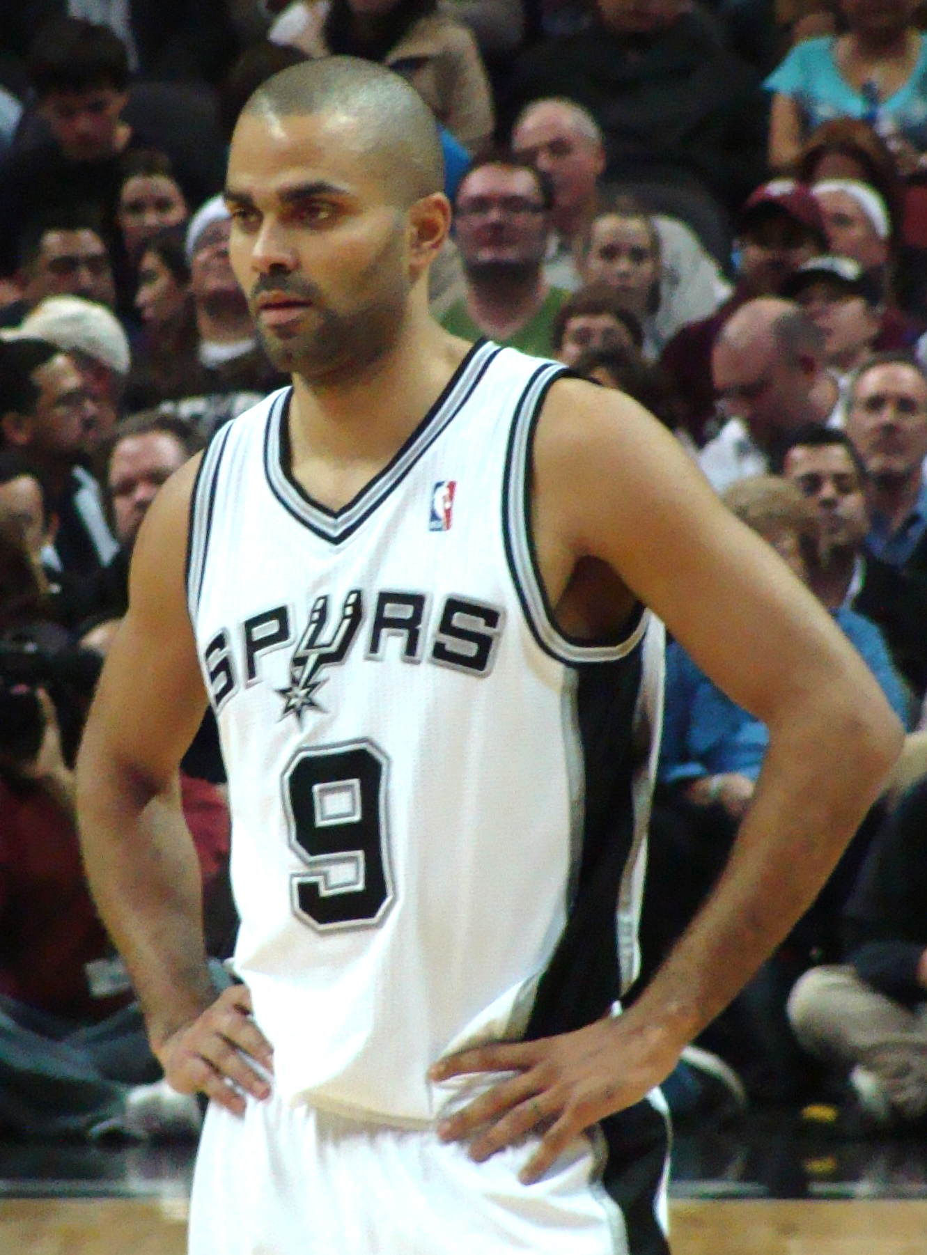 Photo was taken during the Spurs-Nuggets match on 12-22-2010 in San Antonio, TX.